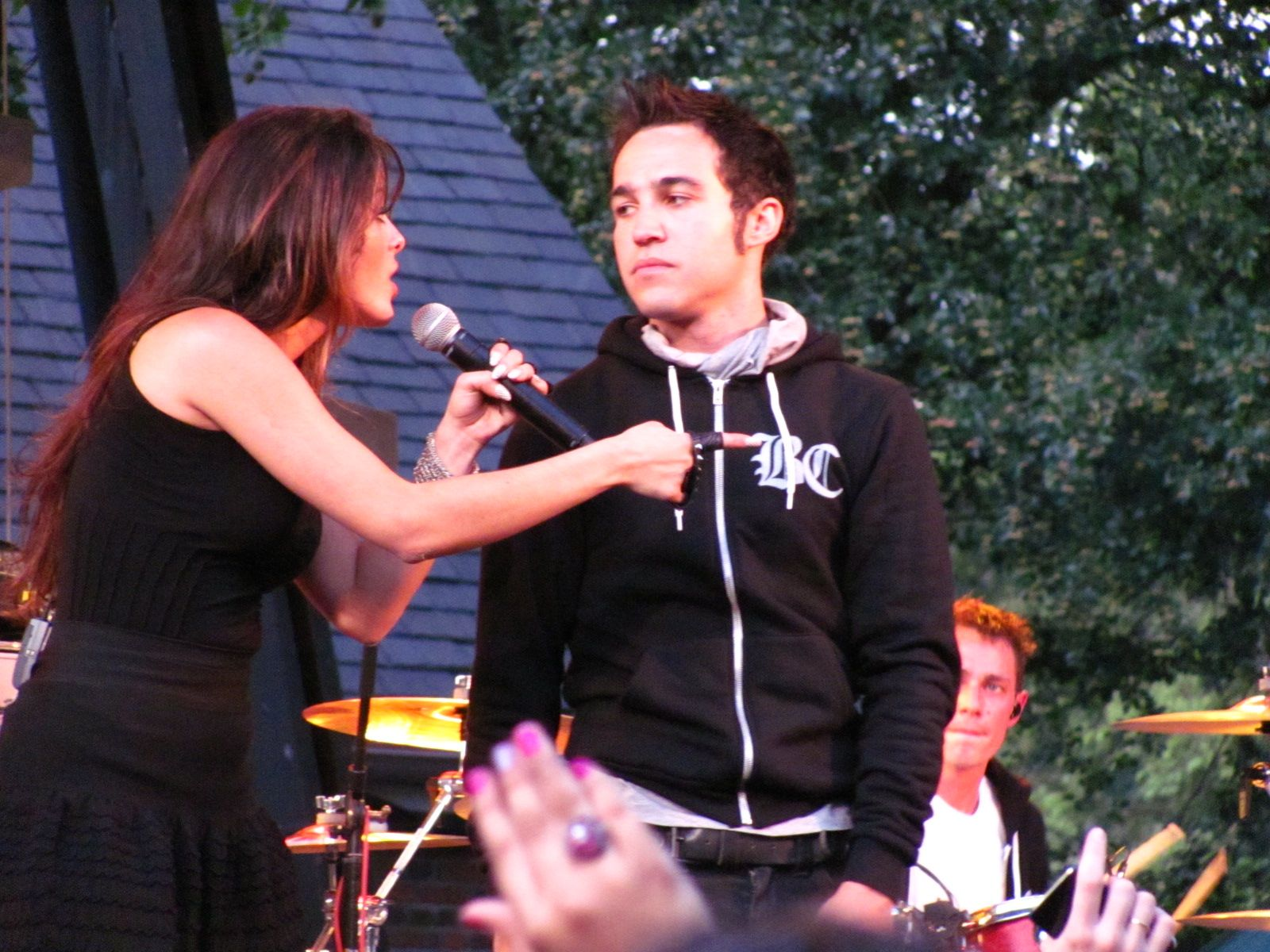 Bebe Rexha and Pete Wentz of Black Cards performing on September 1, 2011 in Central Park